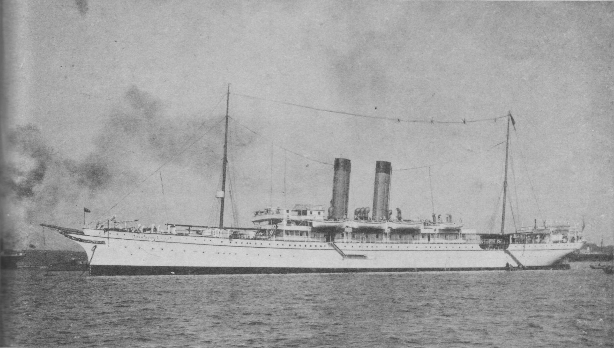 T.K.K. Line （Toyo Kisen) "Nippon Maru". This ship was completed by Sir James Laing & Sons Co. In 1898.